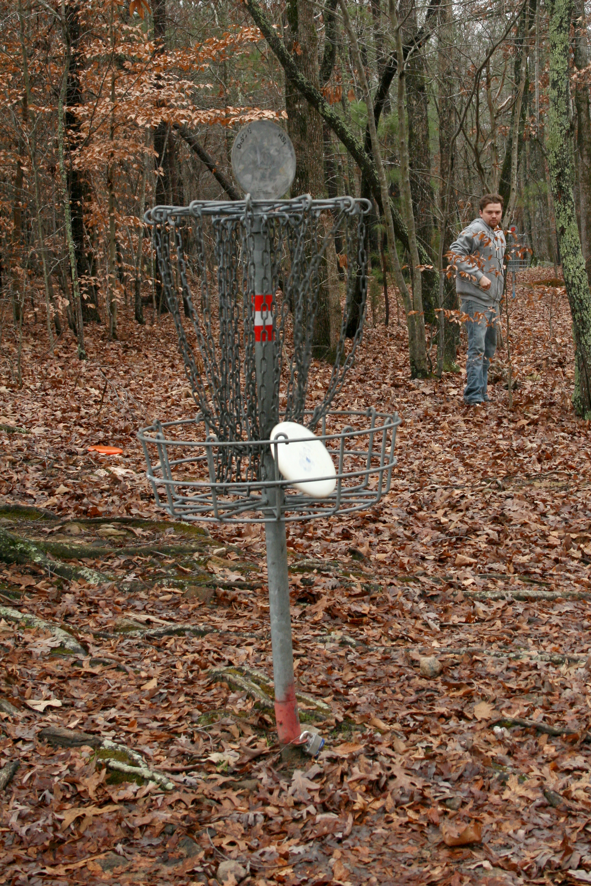 Nate Dizo just got a disc into a basket at Valley Springs Park in Durham, North Carolina.